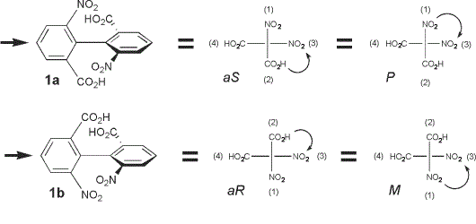 nomenclatura do atropoisomero